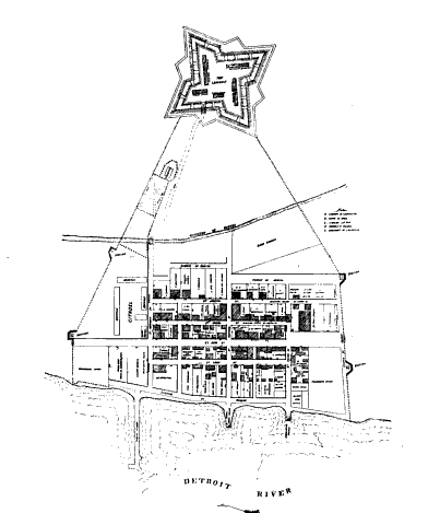 Diagram of Fort Shelby